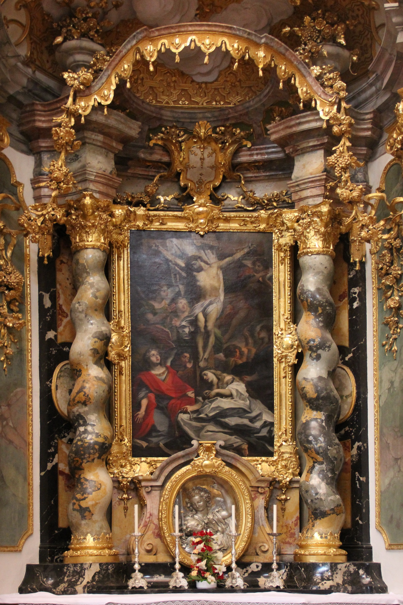 Weltenburg Abbey Native nameKloster WeltenburgLocationWeltenburg, Lower Bavaria, GermanyCoordinates48° 53′ 56″ N, 11° 49′ 11″ E Established7th century date QS:P,+650-00-00T00:00:00Z/7Web page control : Q260108 VIAF: 140754787 LCCN: n83039576 GND: 809502-4 WorldCat institution QS:P195,Q260108